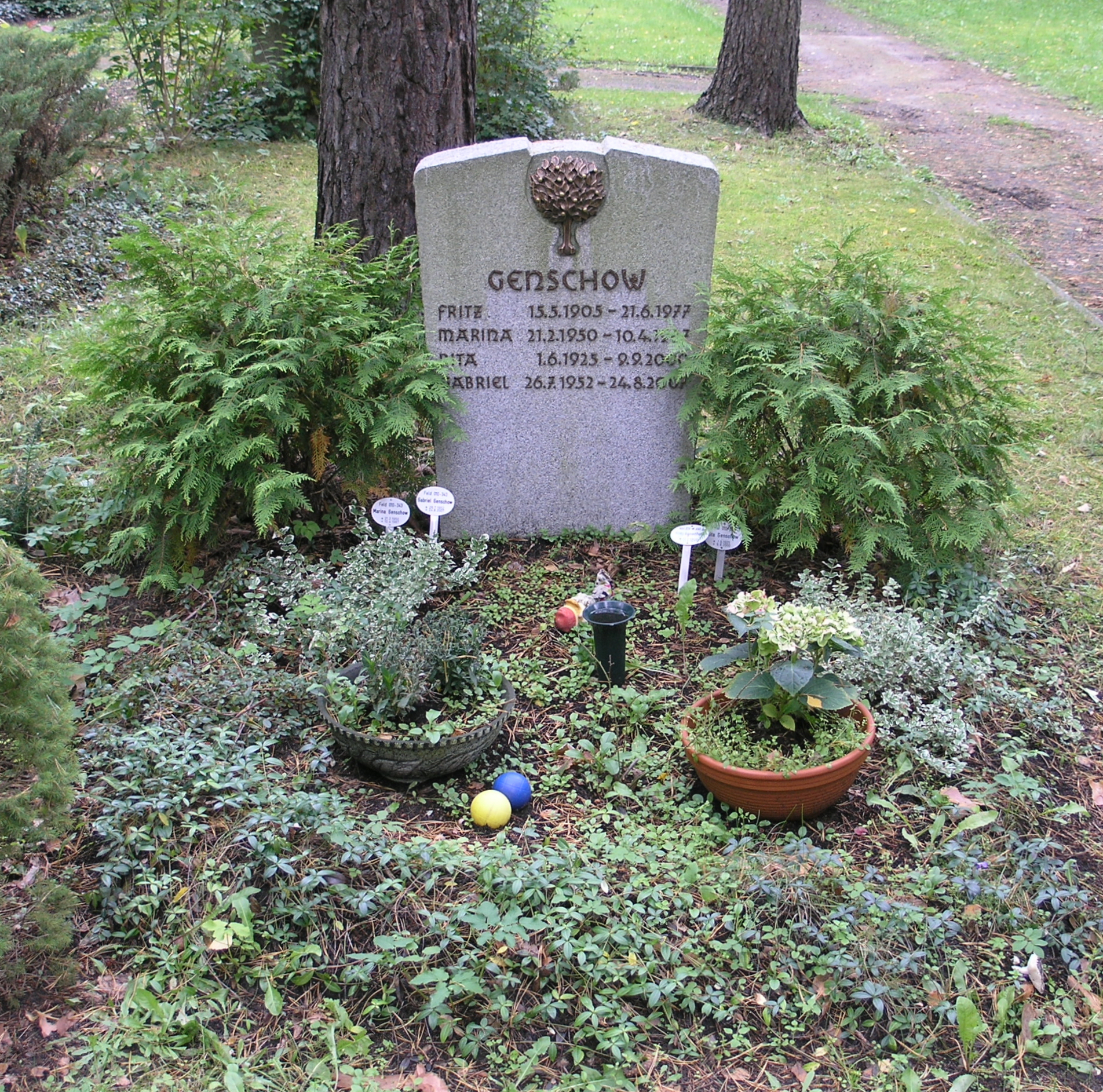 Graves, Fritz Genschow, Potsdamer Chaussee 75, Berlin-Nikolassee, Germany